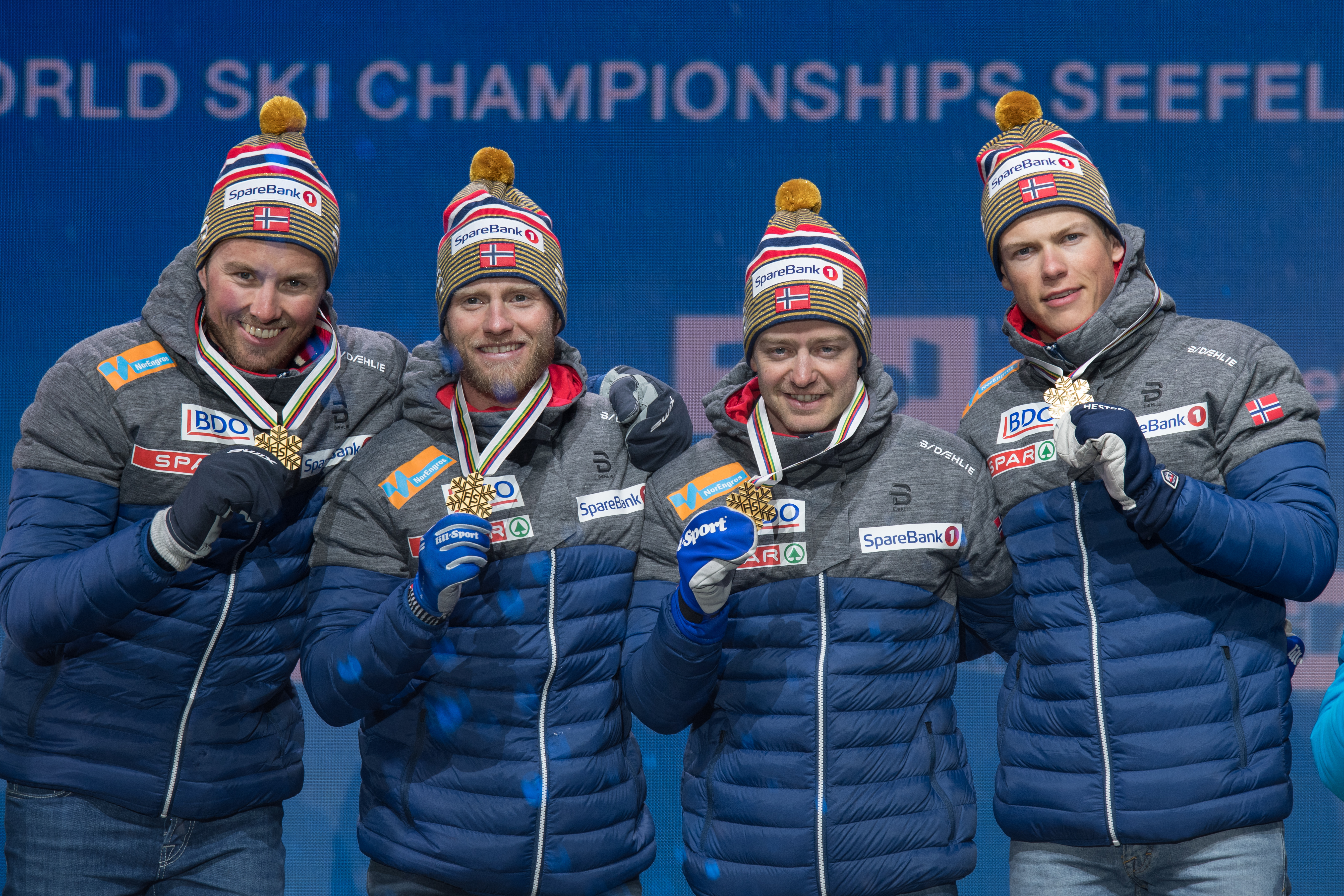 FIS Nordic World Ski Championships Seefeld 2019 - Medal Ceremony at the Medal Plaza. Picture shows Emil Iversen (NOR), Martin Johnsrud Sundby (NOR), Sjur Roethe (NOR), Johannes Hoesflot Klaebo (NOR).